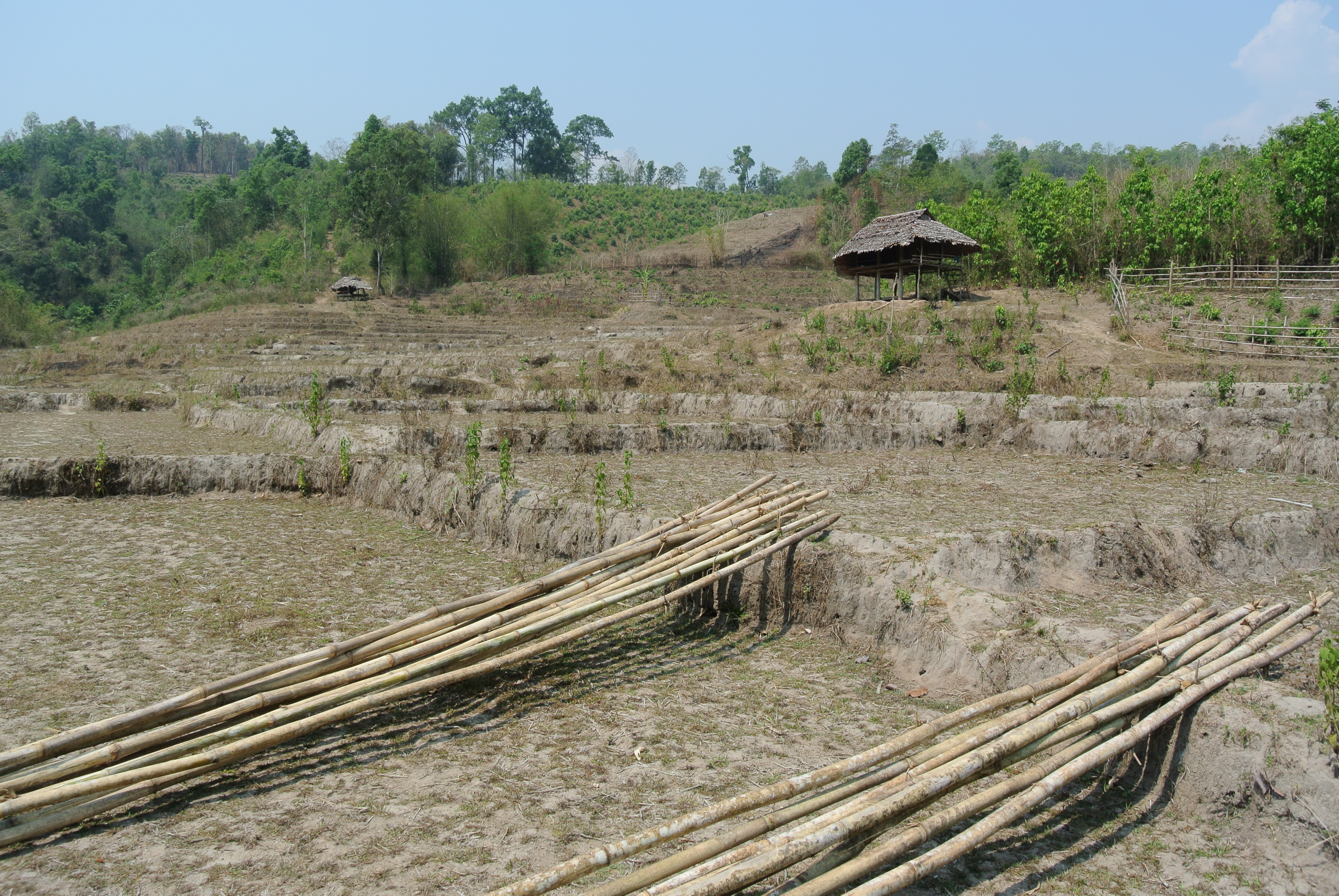 Rice fields cultivated by the Karen tribe, at the end of the dry season. Northern Thailand, near Doi Inthanon National Park.